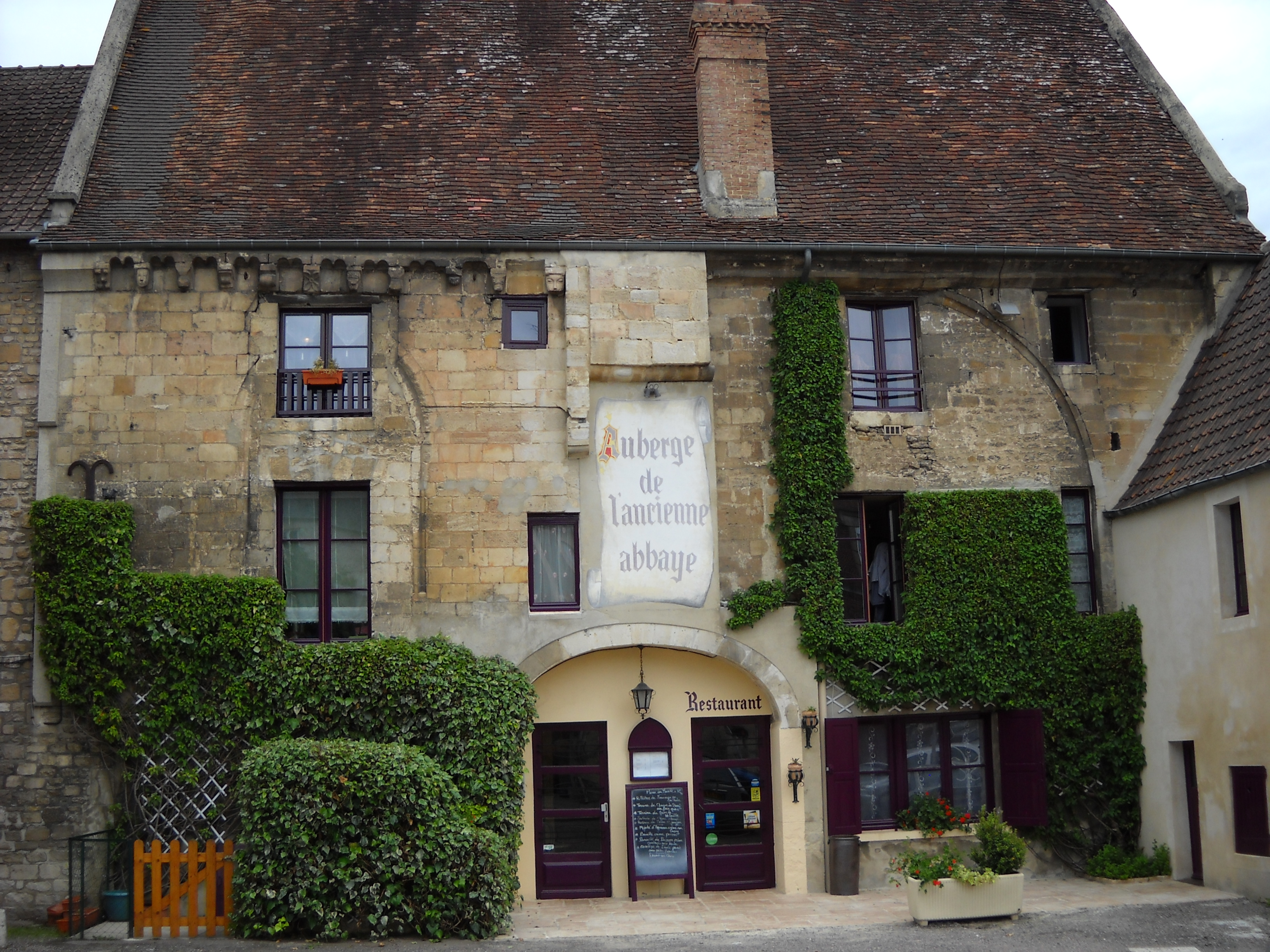 Former abbey, now a restaurant, in Argentan, Orne, France.